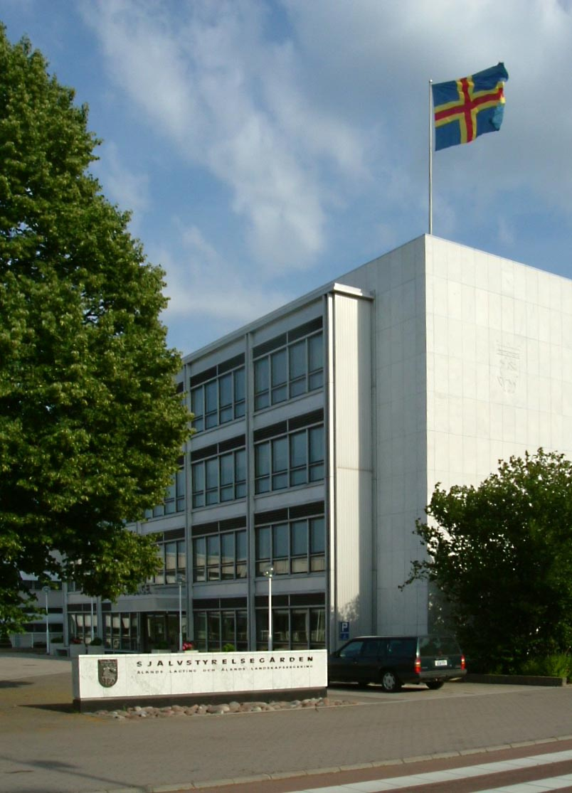 Alands Islands Parliament Building, Mariehamn, Aland Islands